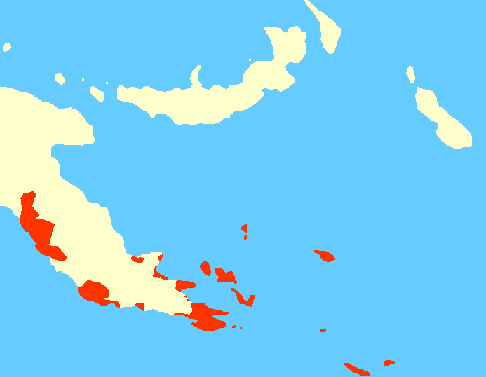 Papuan Tip Subgroup of Western Oceanic Languages based on: (maps 16 and 17)